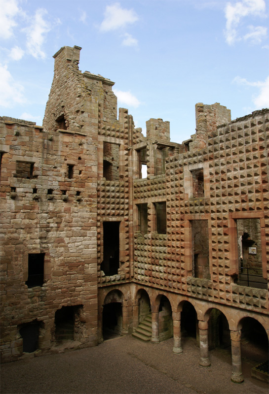 Crichton Castle, Midlothian, Scotland - north west corner of courtyard with loggia and diamant shaped façade